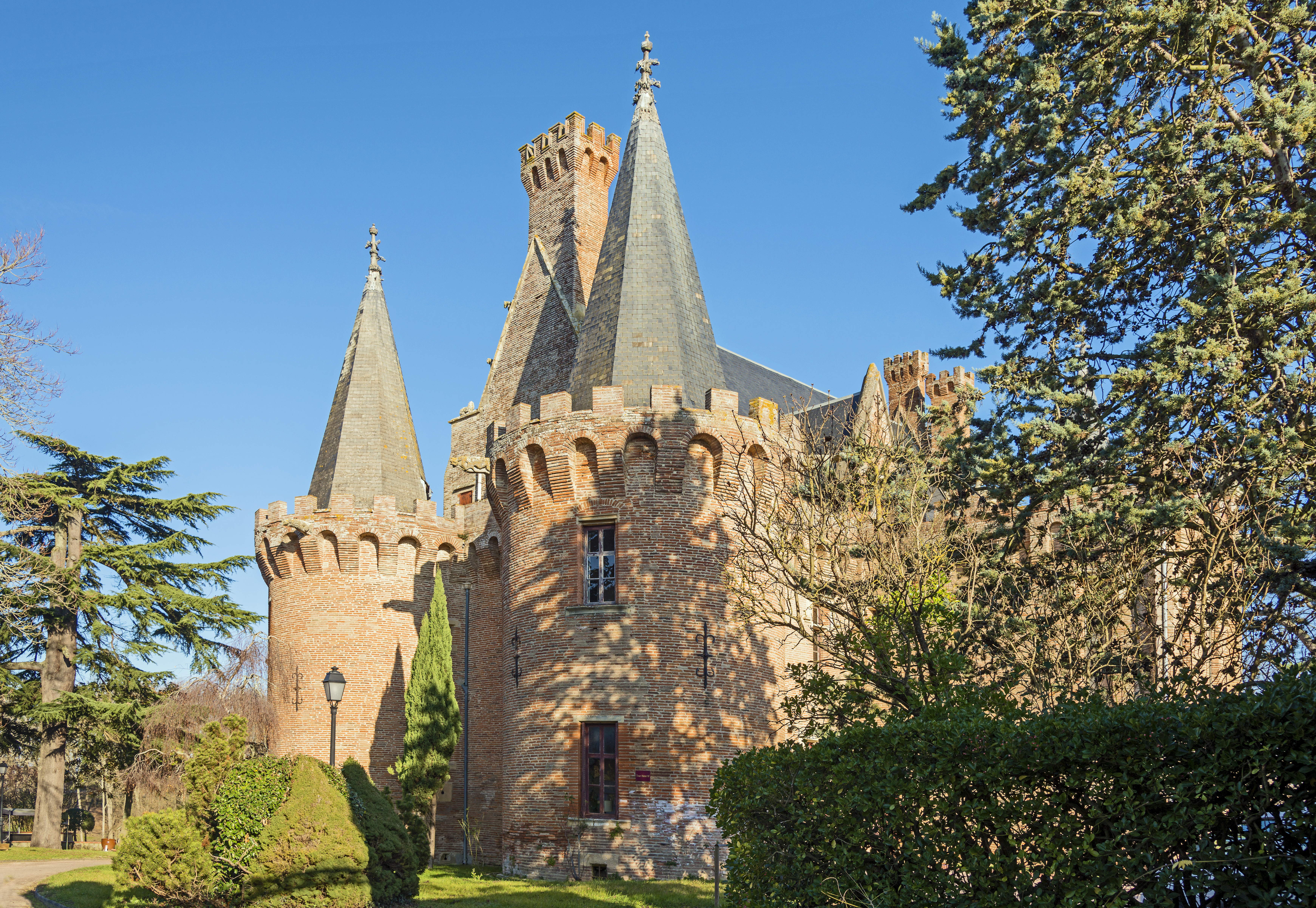 Château de Brax , Haute-Garonne France - sixteenth century